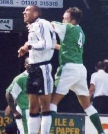 English footballer Stan Collymore